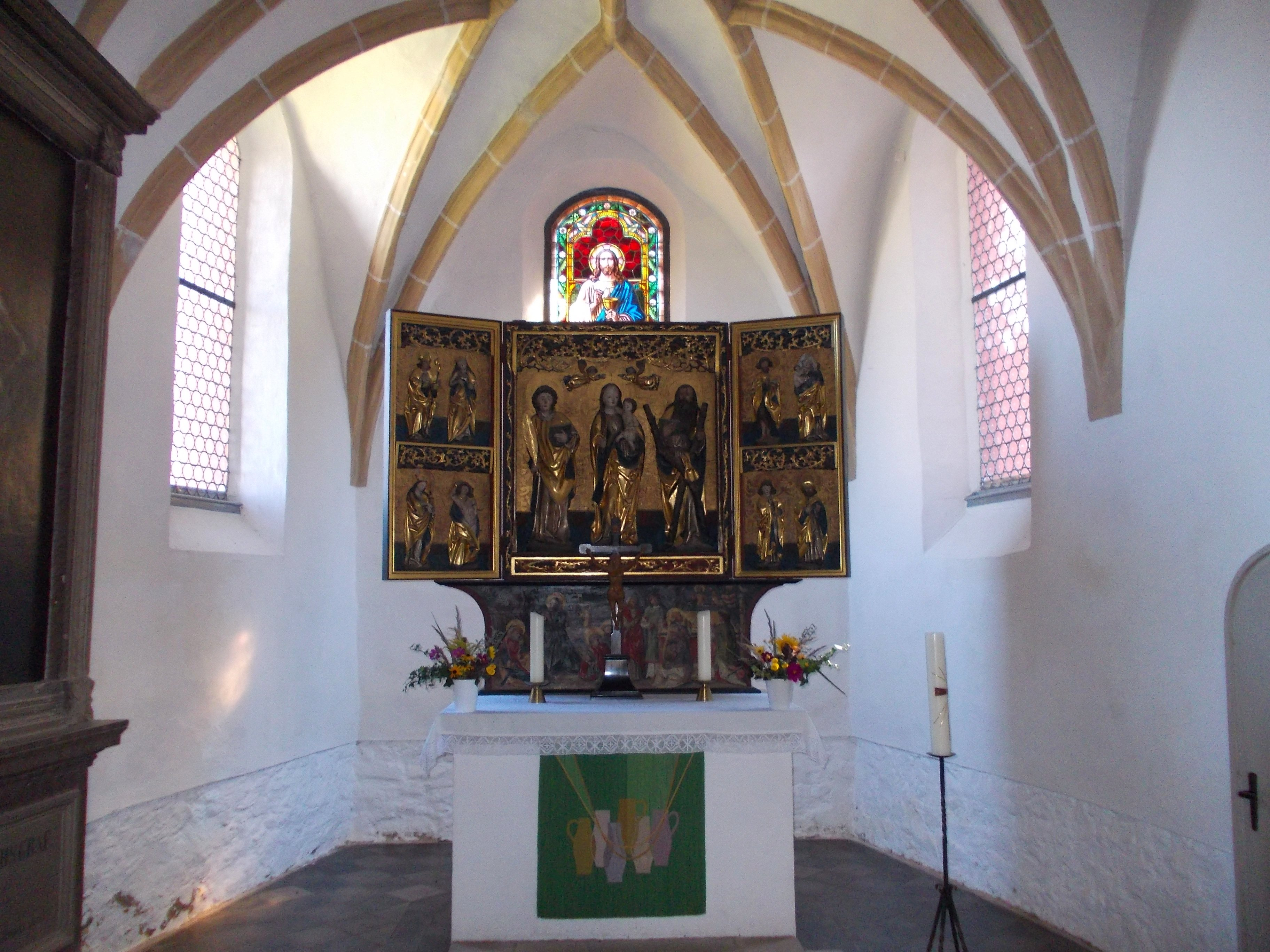 Altar in St. Nicholas Church in Machern (Leipzig district, Saxony). This late gothic altar belongs originally to St. Lawrence Church in Leulitz.